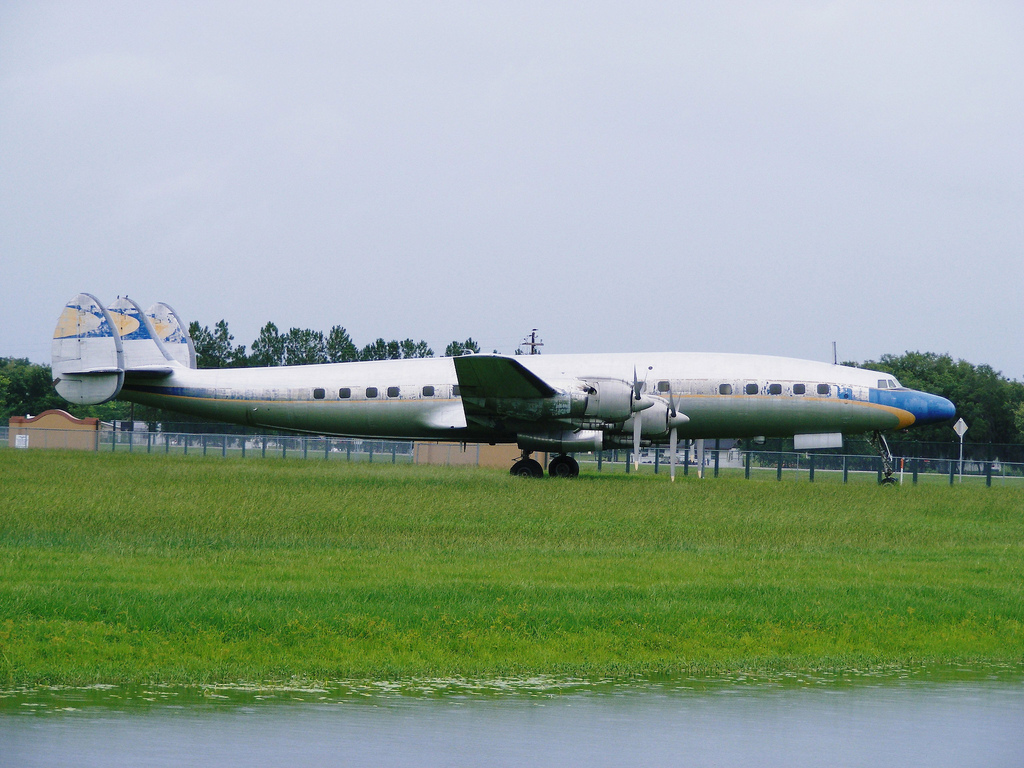 June 2009 we find N974R an example of a Lockheed Constellation L1649 Model - Starliner resting near to the front entrance and car park area. This aeroplane flew in from Sanford Florida a few years ago and has rested here since. My understanding is that it has recently been sold for preservation.